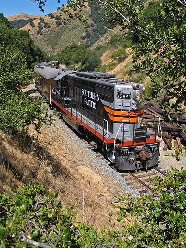 A passenger train pulled by Southern Pacific GP-9 #5623 travels east from Niles toward Sunol on the Niles Canyon Railway. The train is just east of Farwell Bridge and was photographed in the Summer of 2006.